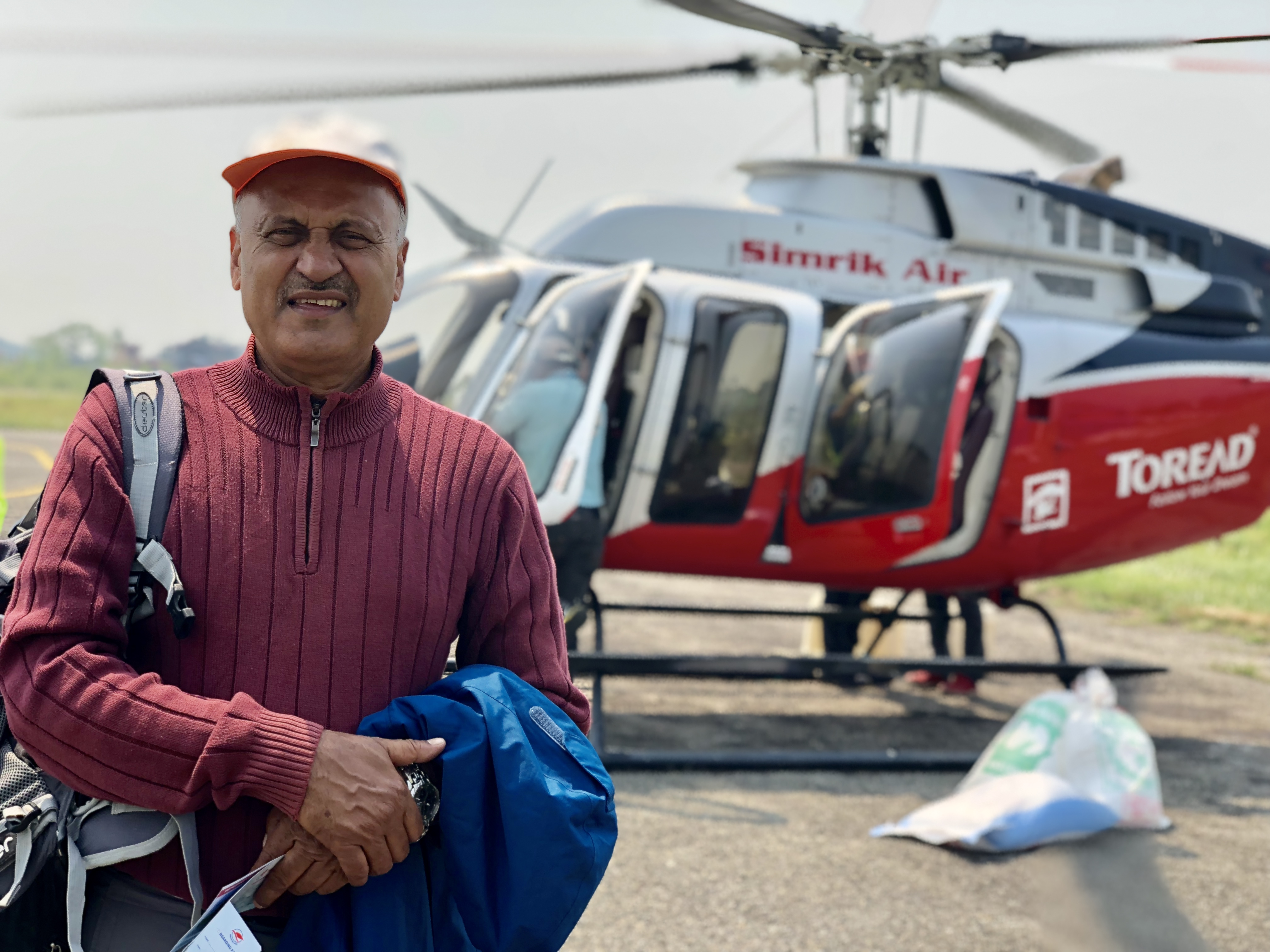 After successfully defining and measuring the routes for Annapurna Marathon, Pokhara 2018